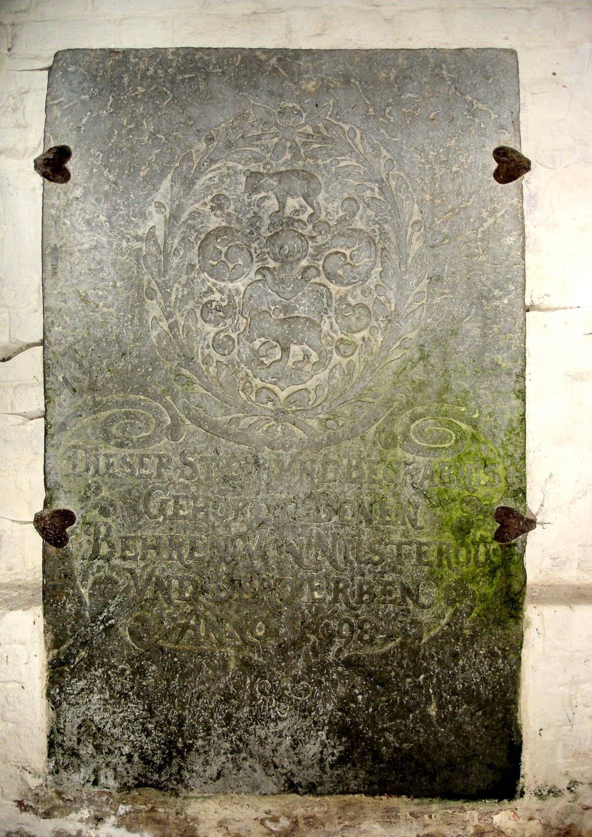 Church in Basse